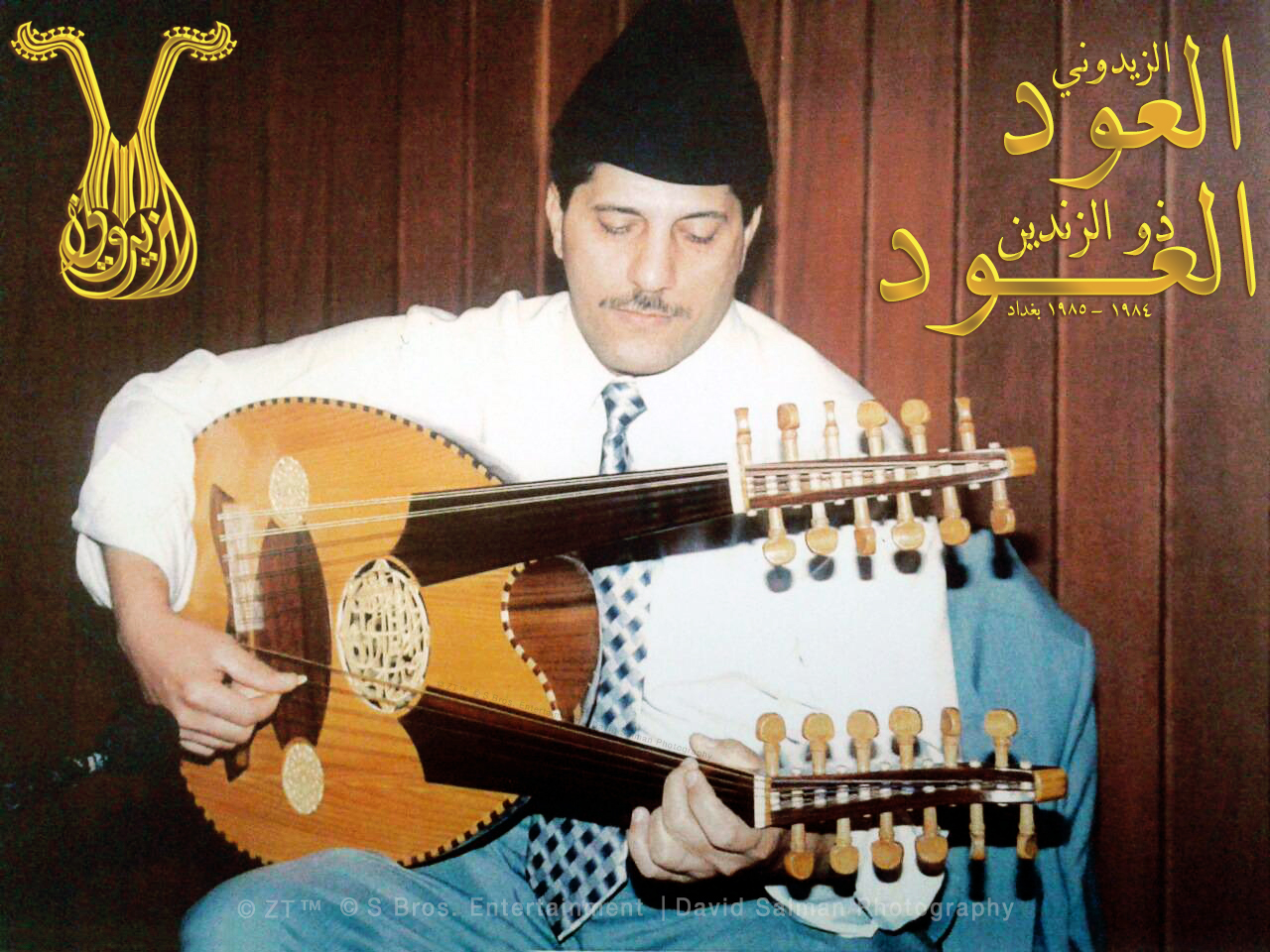 Zaidoon Treeko with Al-ZAIDOONI OUD - Oud with 2 Necks (with two fingerboards) 1984 - 1985 Baghdad, Iraq